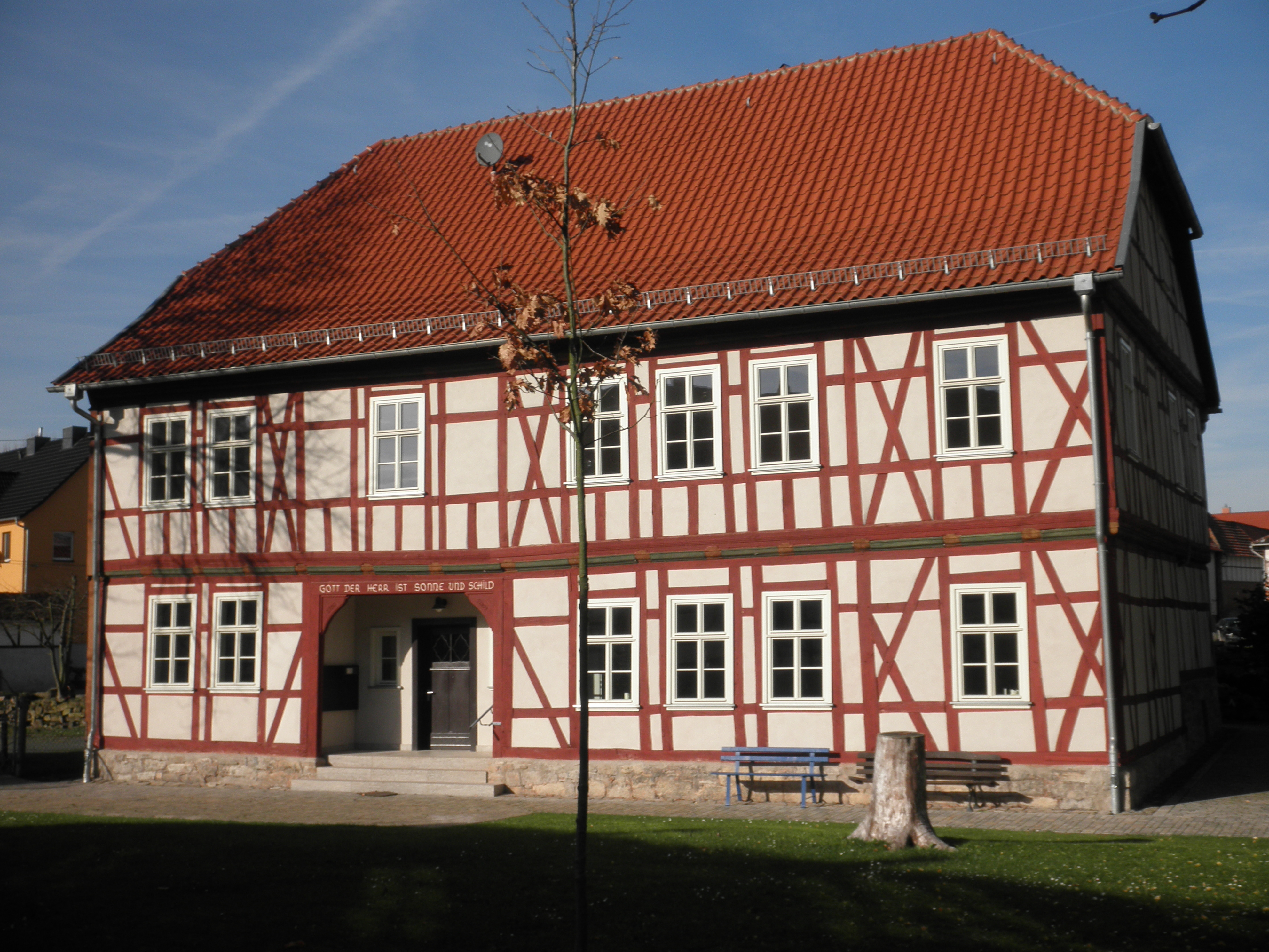 Parsonage in Trebra (Hohenstein) in Thuringia